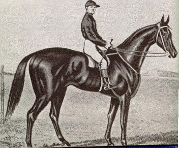 Archer (1856 – 1872) by William Tell (GB) from Maid Of The Oaks by Vagabond (GB). Winner of the first two Melbourne Cups.